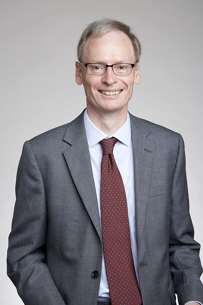 Hugh Christian Watkins FRS FMedSci FRCP (born 7 June 1959) is a British cardiologist. He is a Fellow of Merton College, Oxford, an associate editor of Circulation Research, and was Field Marshal Alexander Professor of Cardiovascular Medicine in the University of Oxford from 1996 to 2013. Attribution: The Royal Society